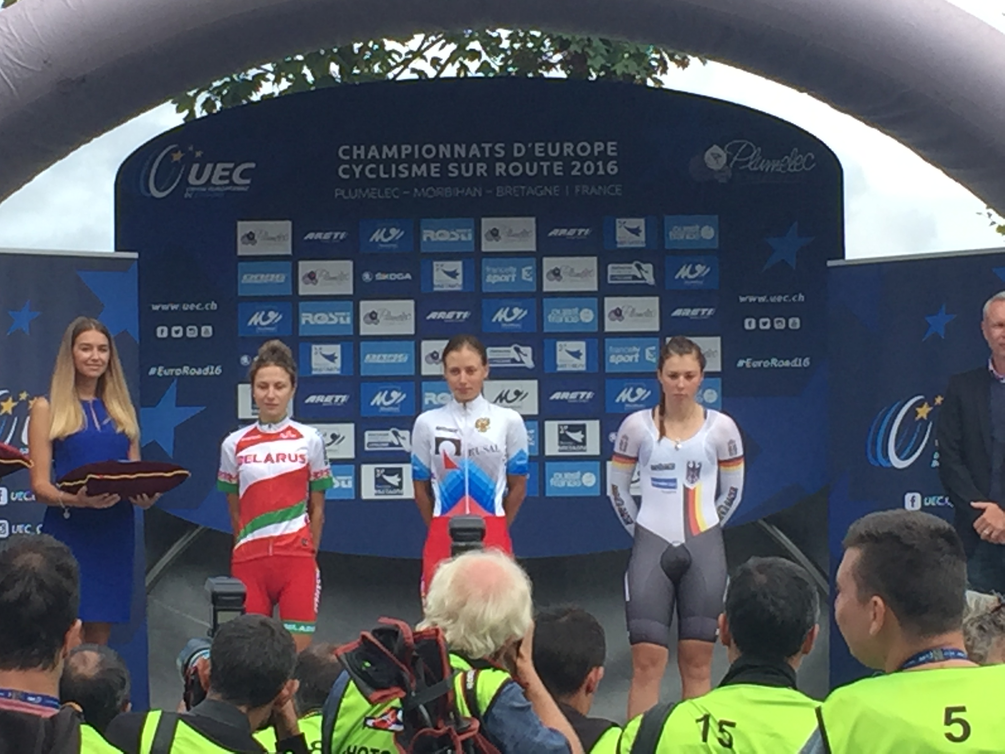 2016 European Road Championships